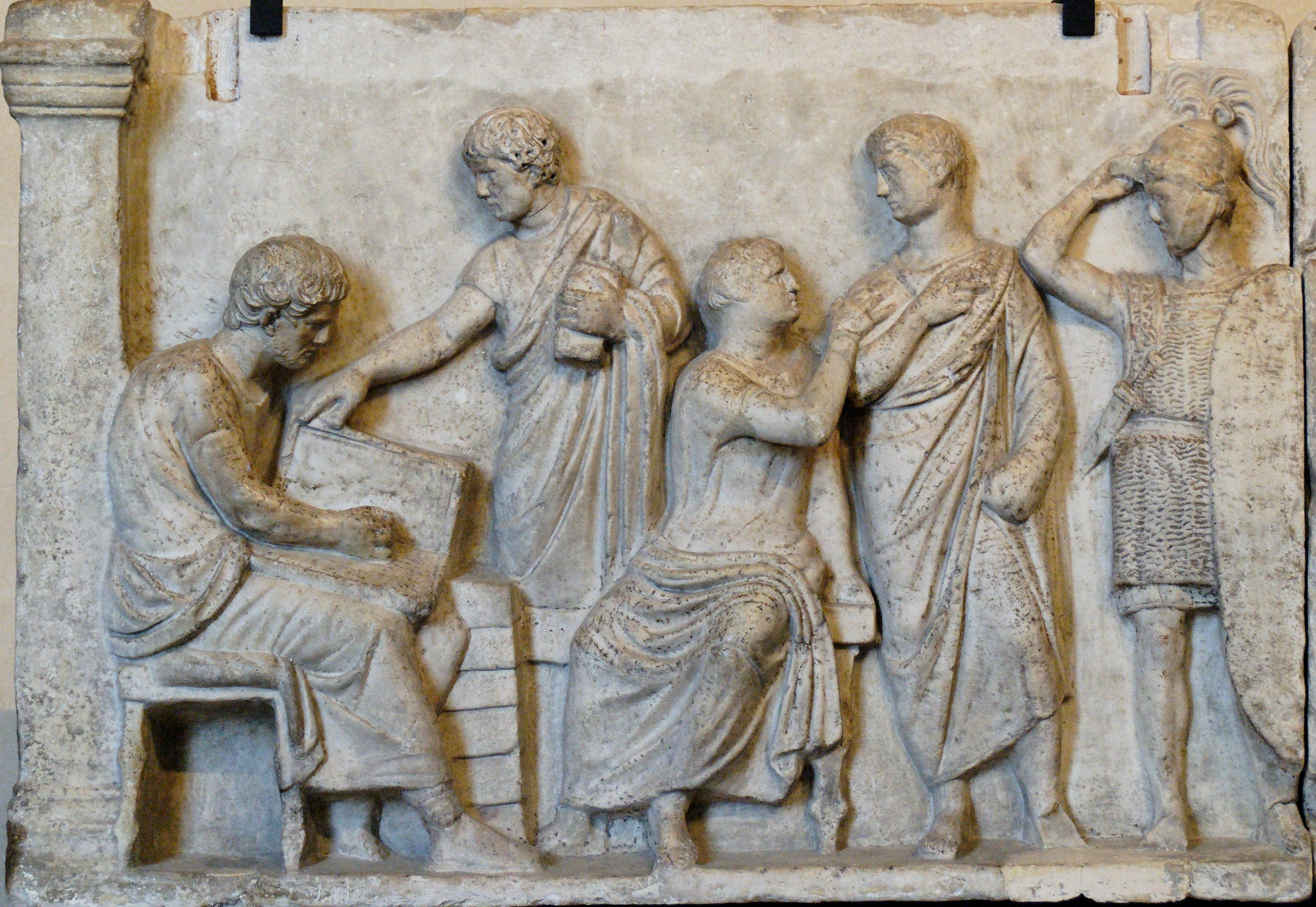 Sacrifice scene during a census: left part of a plaque from the Altar of Domitius Ahenobarbus known as the “Census frieze”. Marble, Roman artwork of the late 2nd century BC. From the Campo Marzio, Rome.